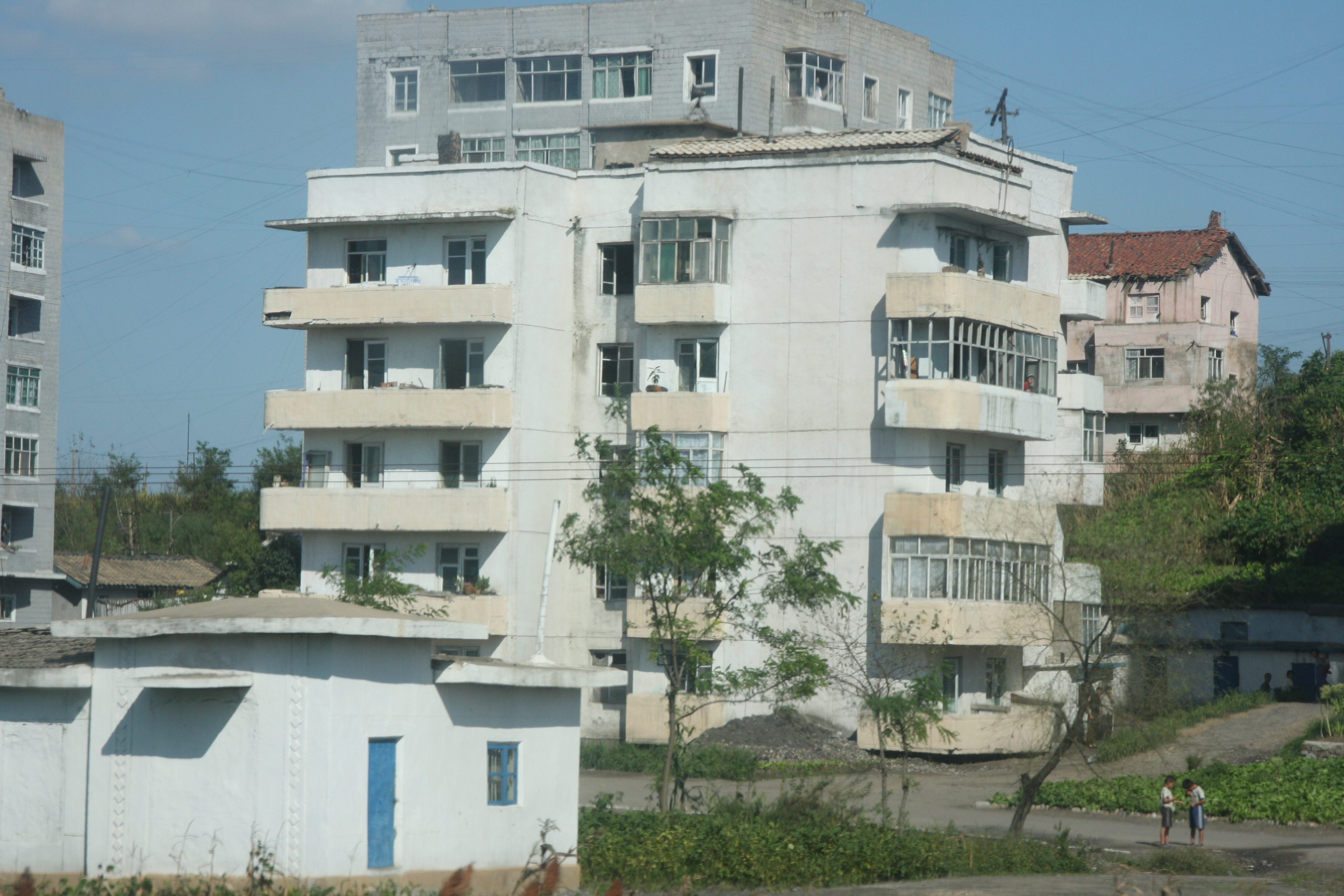 Building in North Korea.